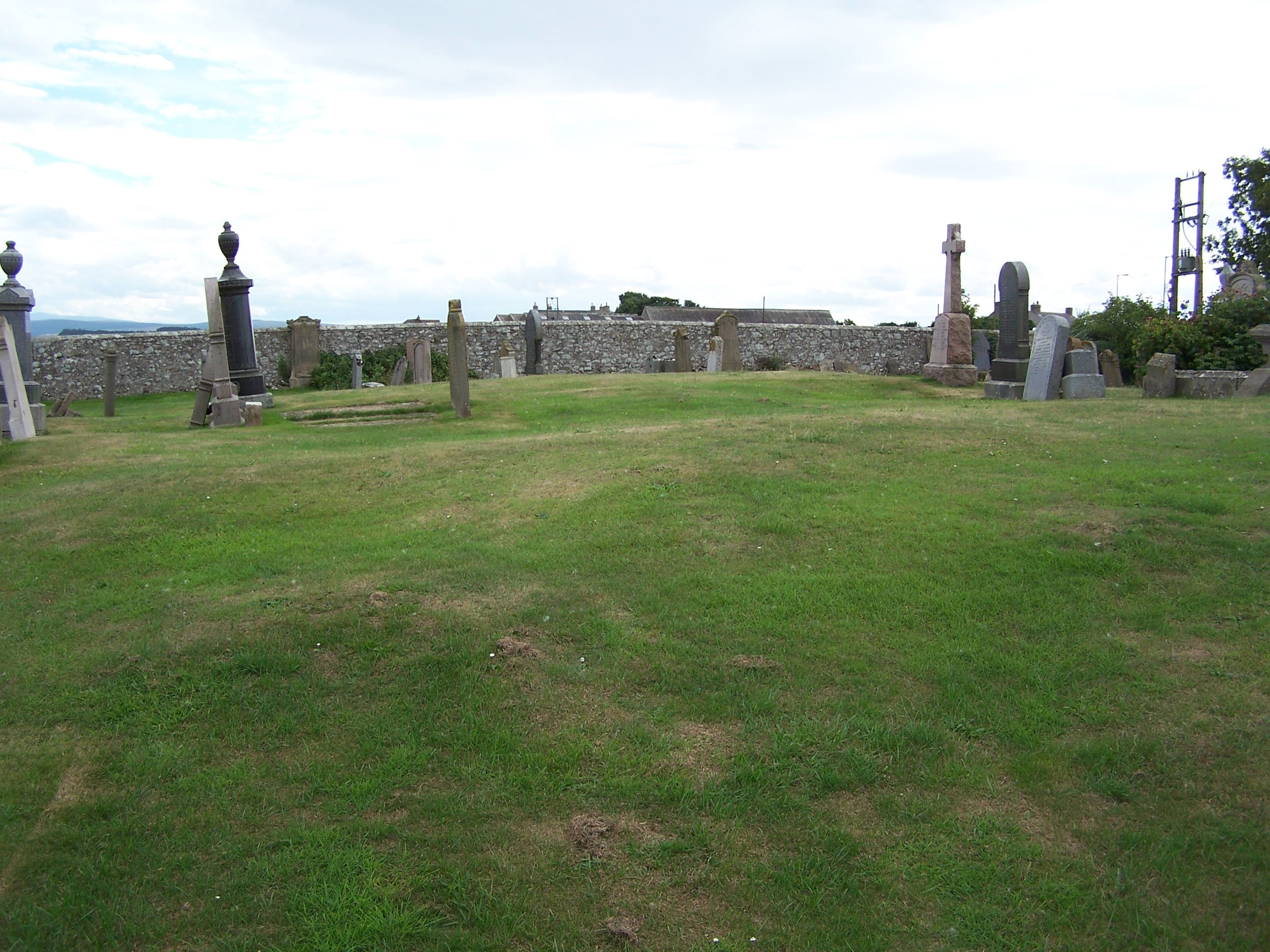 Raised area where the old Kinneddar Parish Church was.